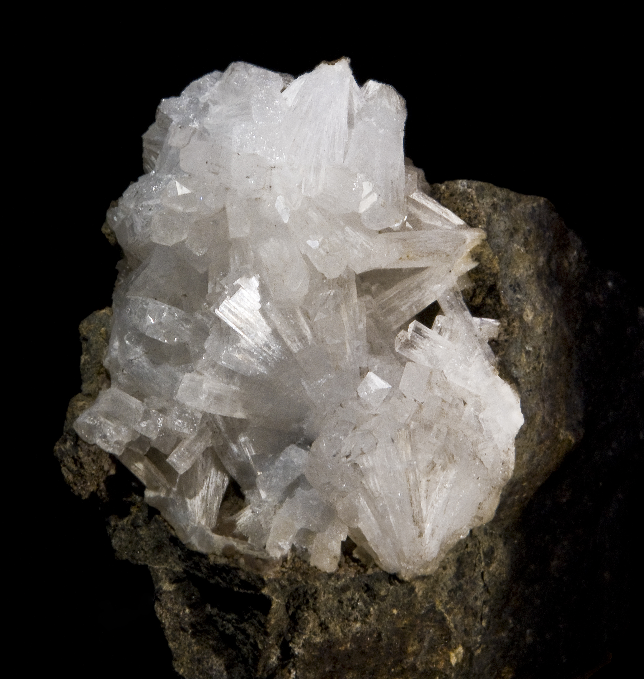 Natrolite on Basalt - Puy de Marmant, Veyre-Monton, Puy-de-Dôme, Auvergne, France (5.3x3.3cm)